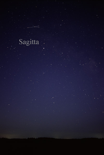 Photography of the constellation Sagitta, the arrow